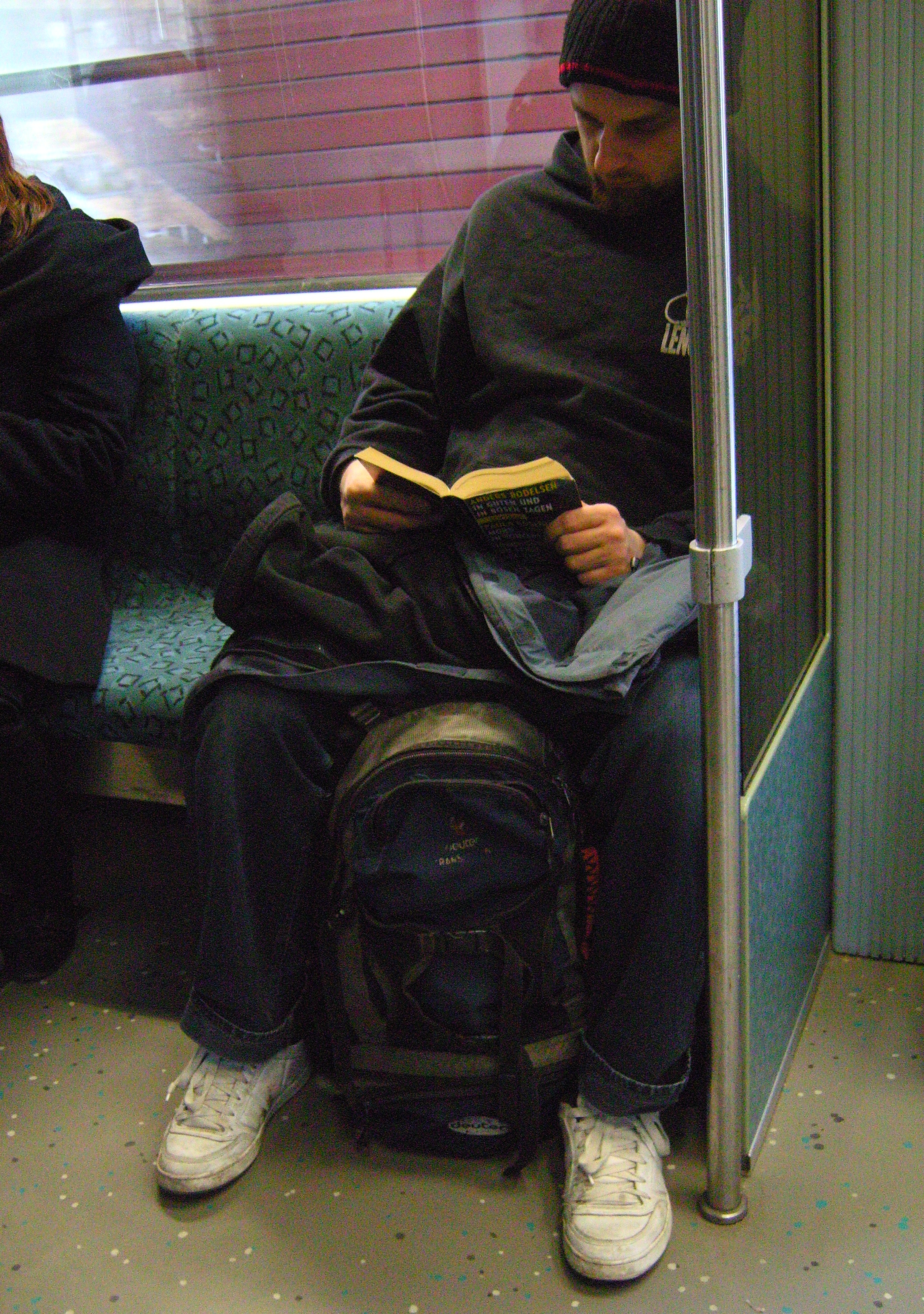 Urban commuter reading a novel, Berlin, March 20, 2009. The book is Anders Bodelsen's Borte, borte: roman (Copenhagen: Gyldendal, 1980) read here in its German version In guten und in bösen Tagen, [=Rororo Thriller, 3010] transl. by Henny Mau (Reinbek bei Hamburg: Rowohlt, 1990), ISBN 3-499-43010-X